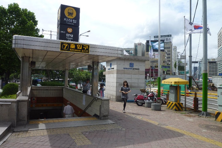 Yangjae Station exit 7